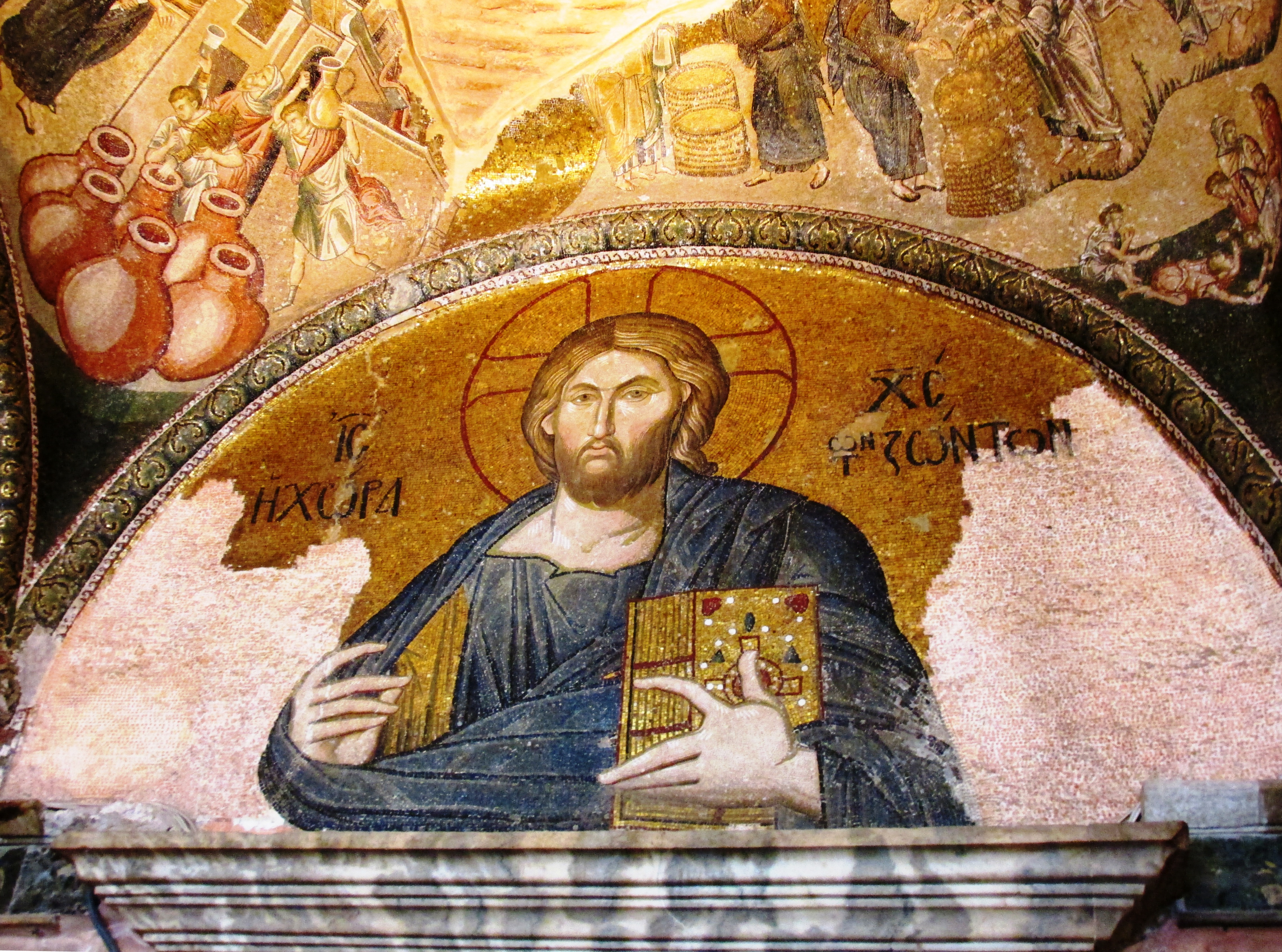 Church of the Holy Saviour in Chora (the Chora Museum) surviving example of a Byzantine church in Istanbul Because of various forms of Iconoclasm , the survival of some of these mosaics is quite amazing. tr 590